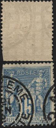 France 1892 15c Front & Back of stamp, showing quadrille pattern